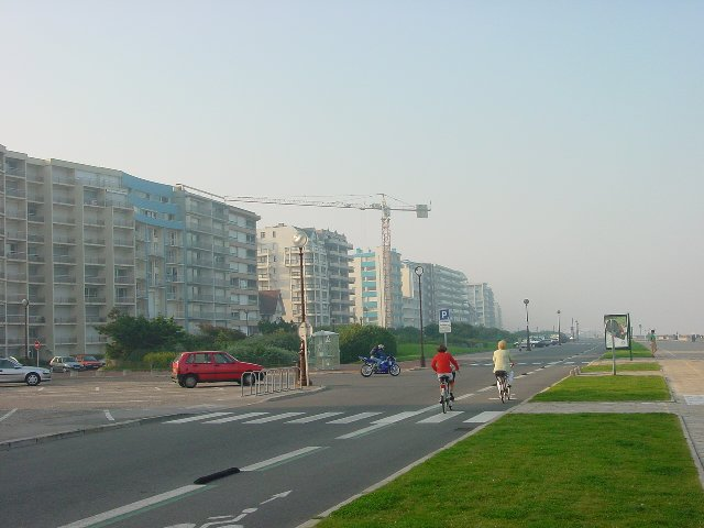 Seafront at le Touquet (France) in 2001